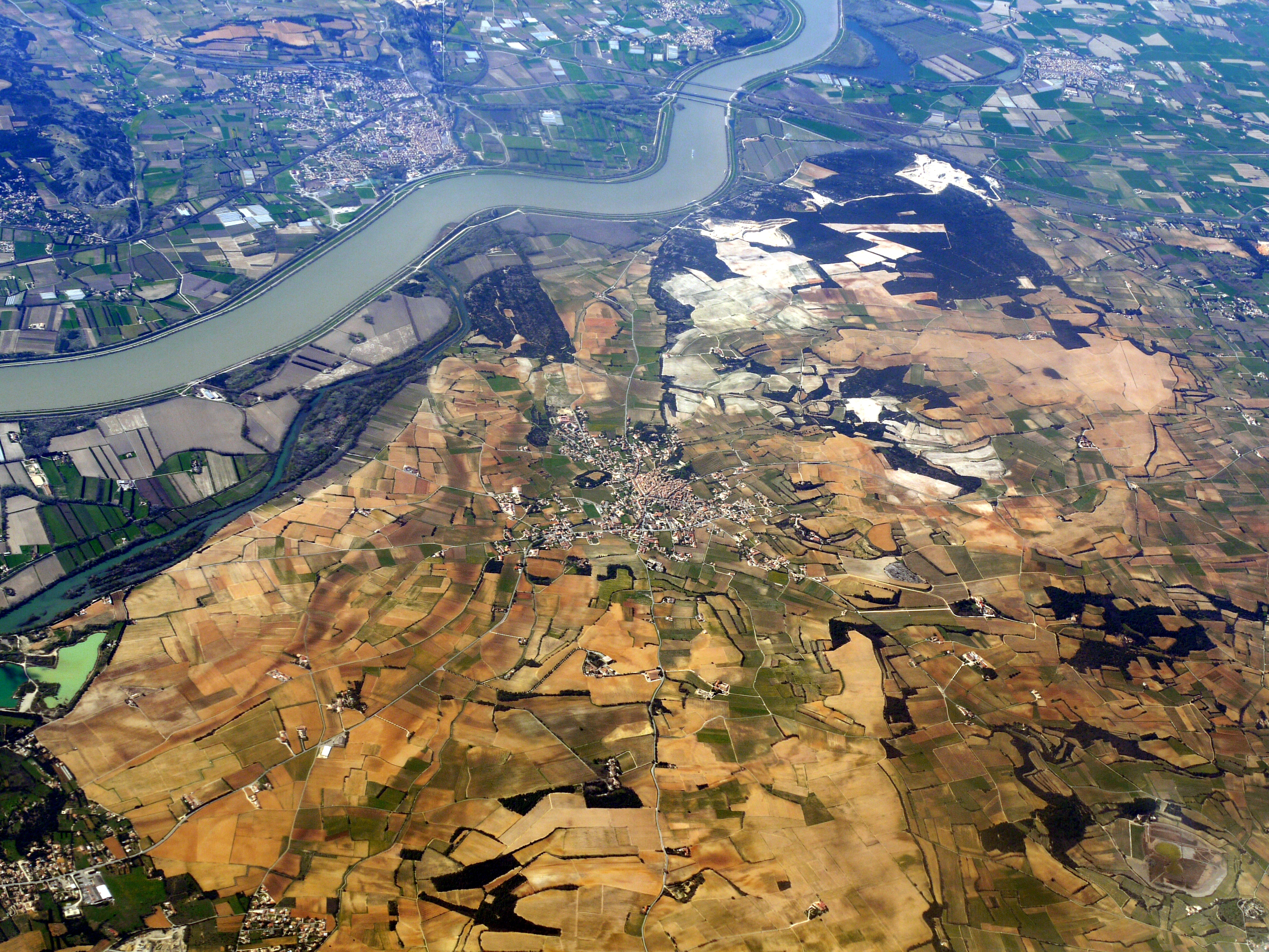 Châteauneuf-du-pape, photograph taken from the sky, on the fly line between Marseille and Stockholm.